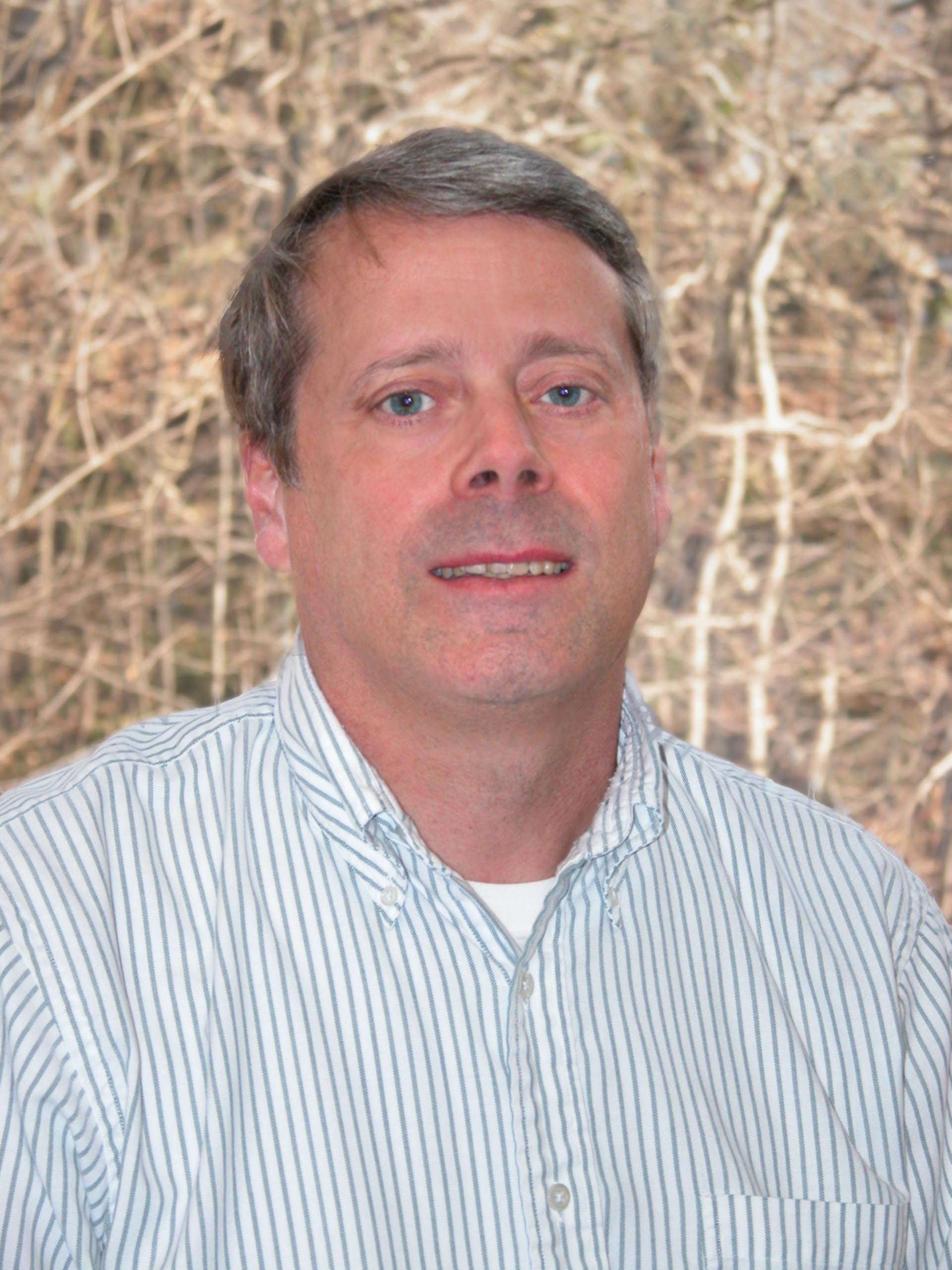 Rodger Doxsey, who heads the Hubble Mission Office at the Space Telescope Science Institute, is the recipient of the 2004 George Van Biesbroeck Prize.